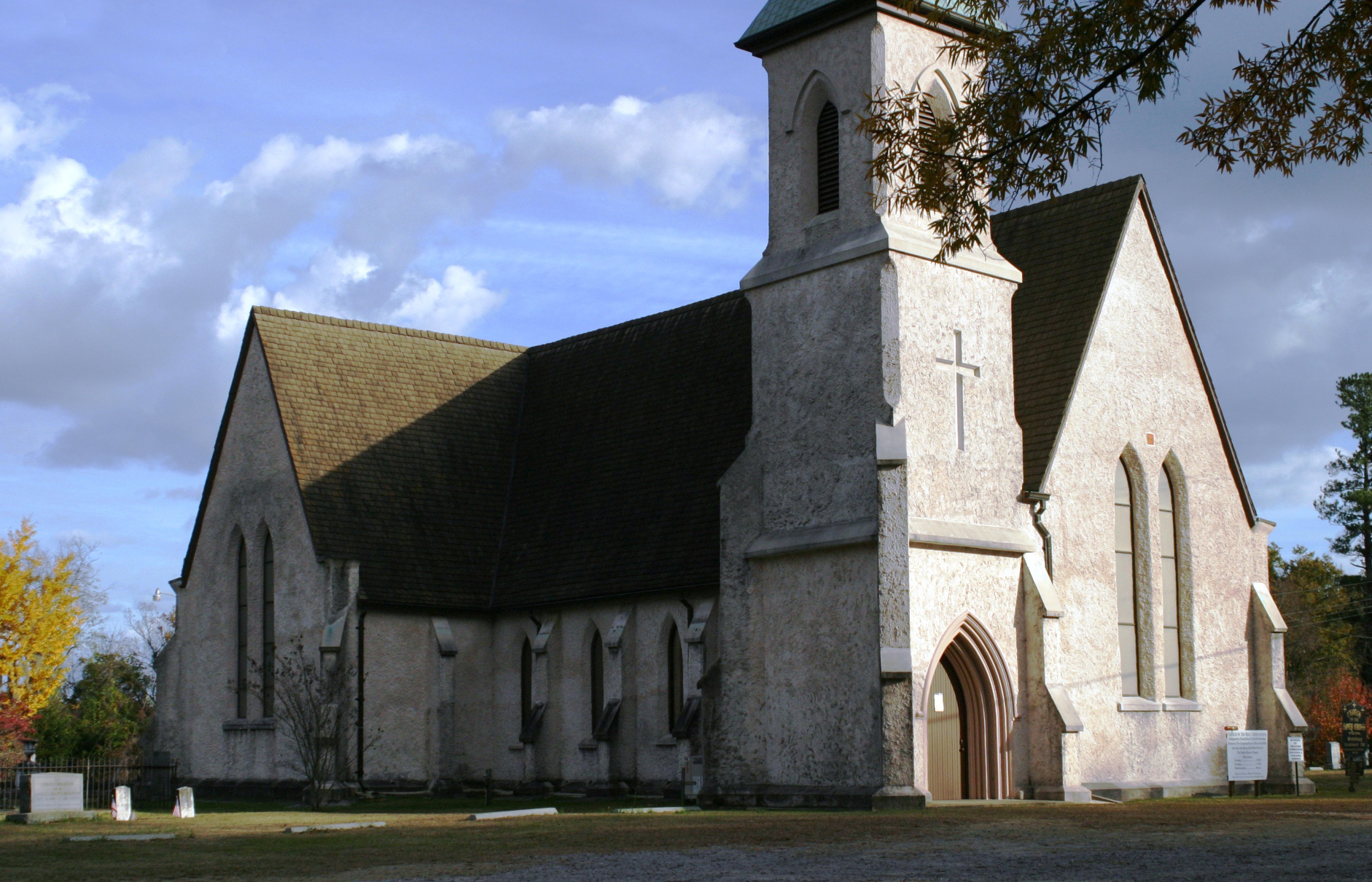 Historic Church of the Holy Cross — within the Stateburg Historic District, in Stateburg of the High Hills of the Santee, in Sumter County, South Carolina. Built of rammed earth in the 1850s.